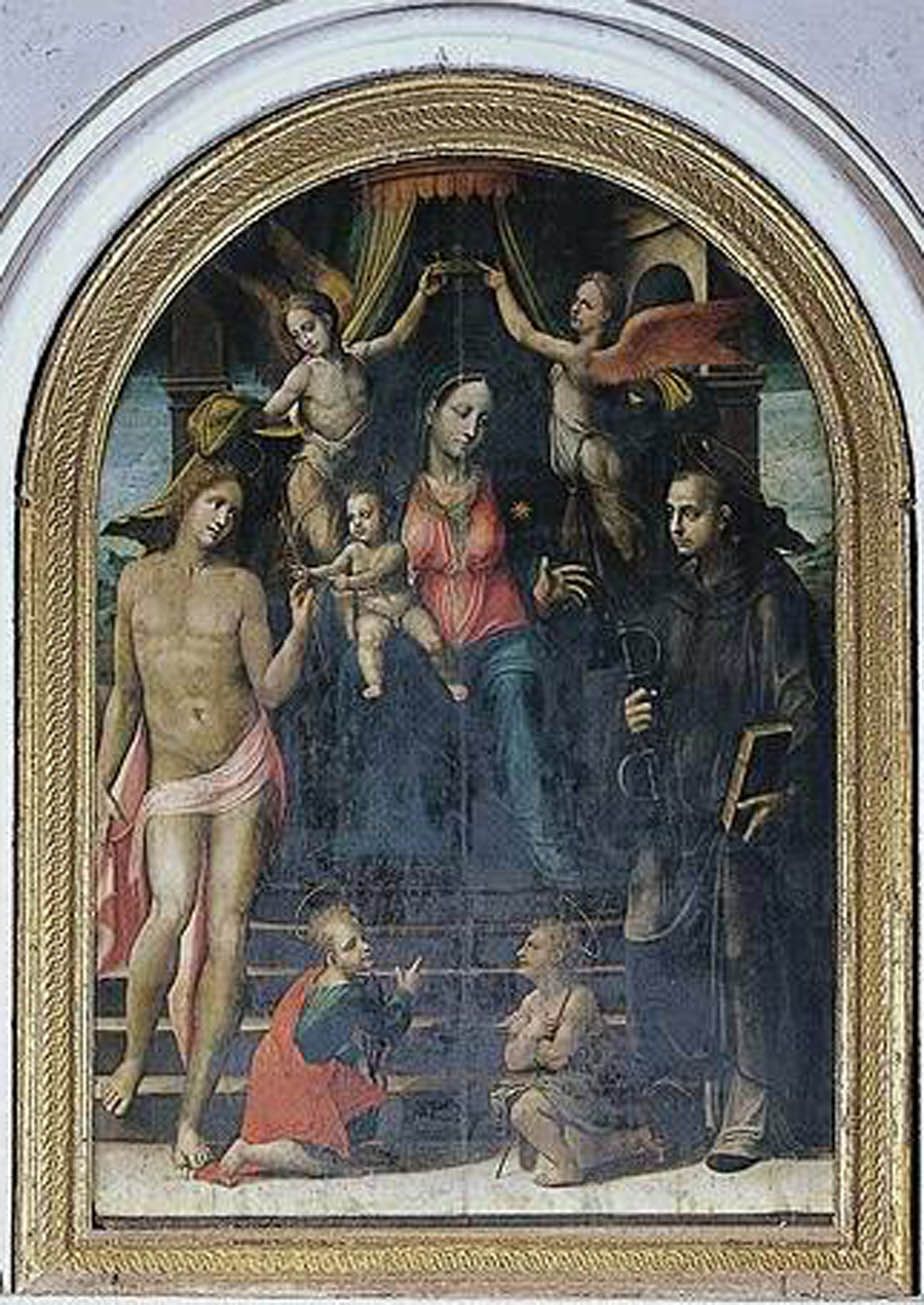 Madonna and Child and Saints